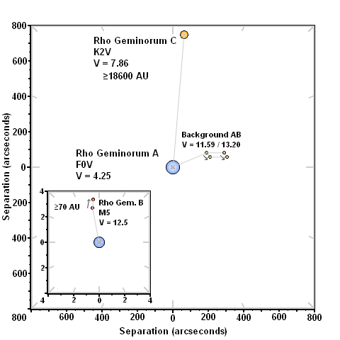 A diagram of Rho Geminorum and the four companions listed in the WDS. Two of the companions are physical, while the other two form a background binary.